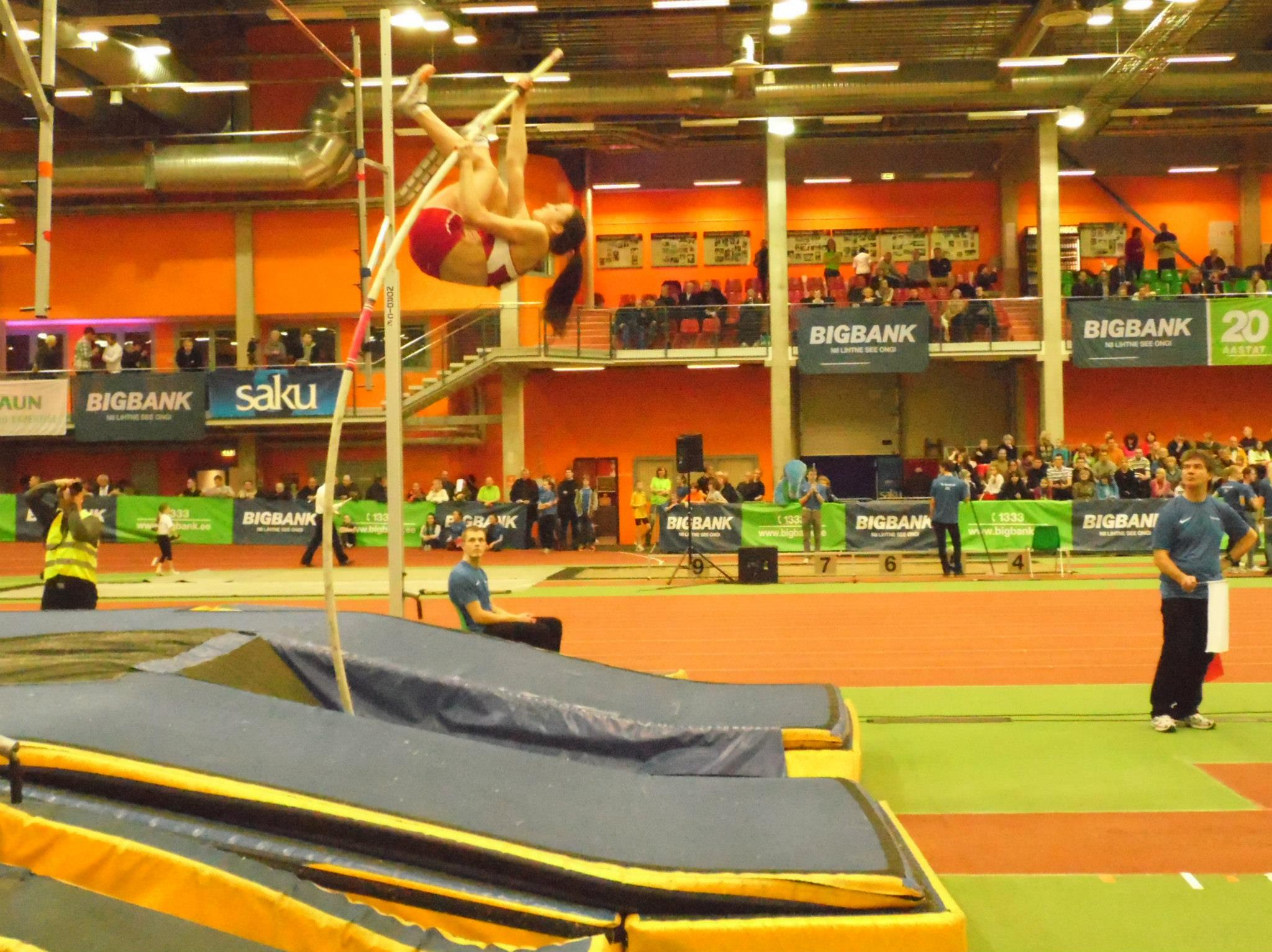 tü spordihall